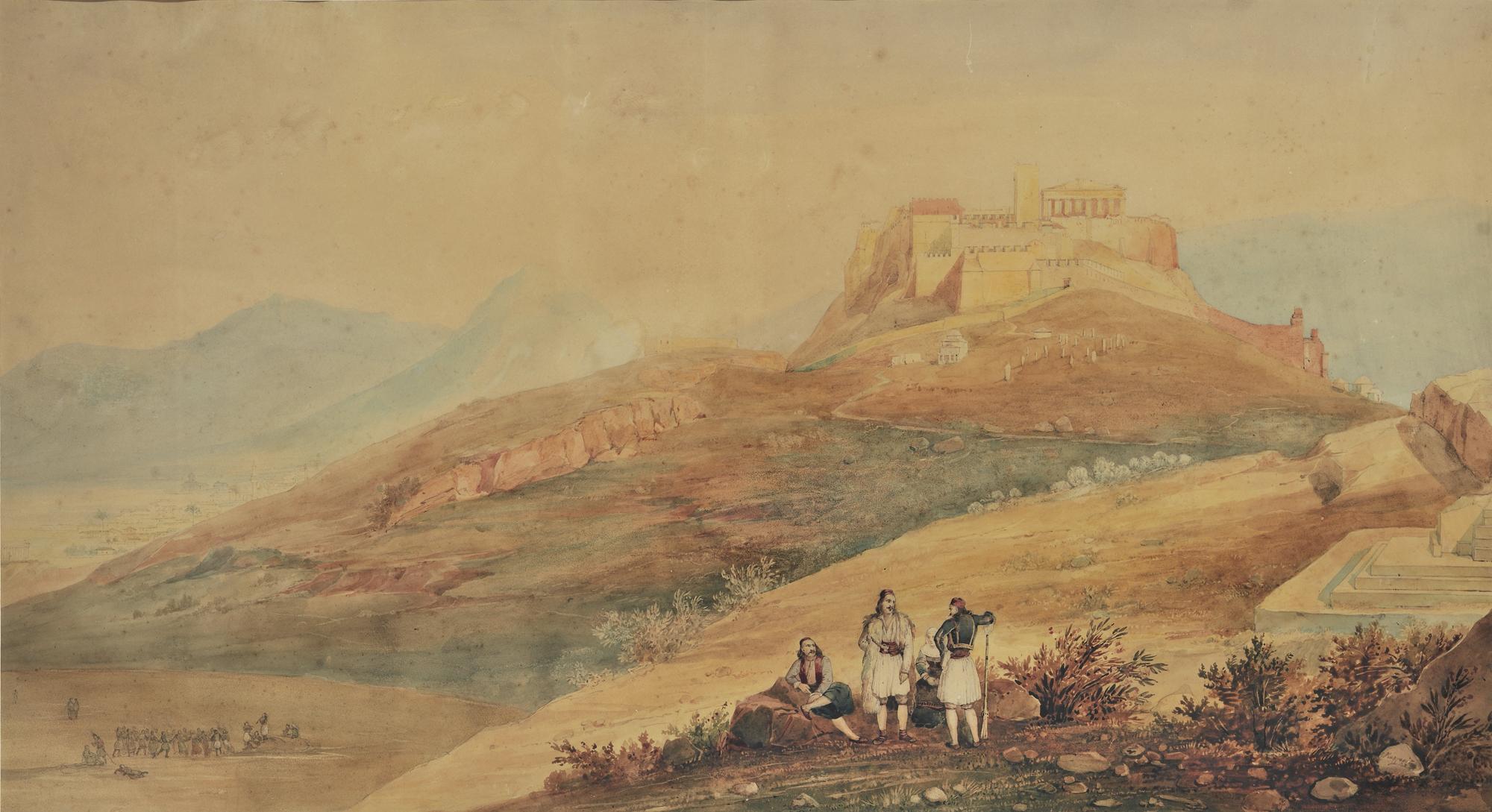 View of Athens Akropolis (1845)